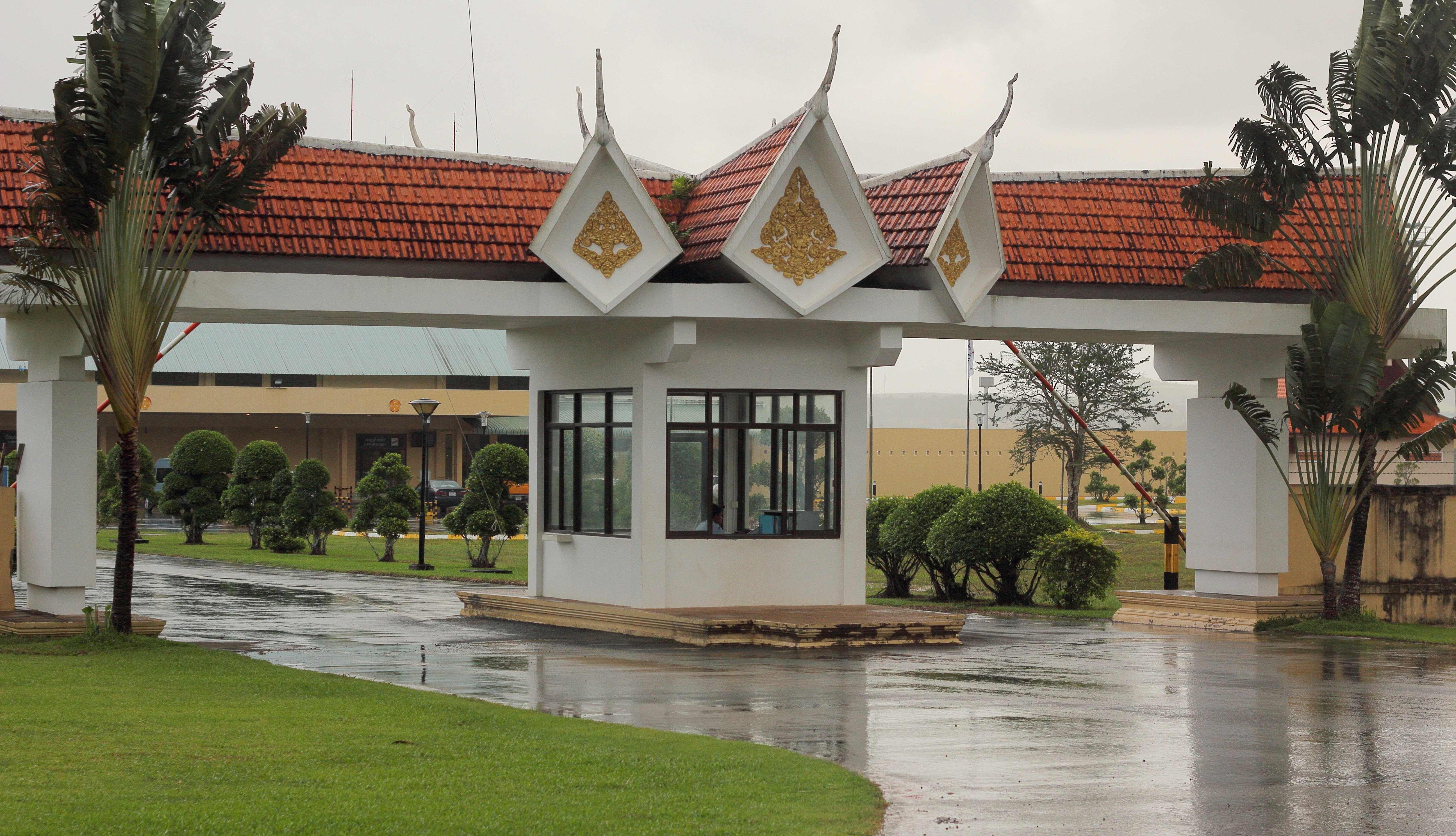 Sihanouk International Airport. ភាសាខ្មែរ: អាកាសយានដ្ឋានអន្តរជាតិក្រុងព្រះសីហនុ